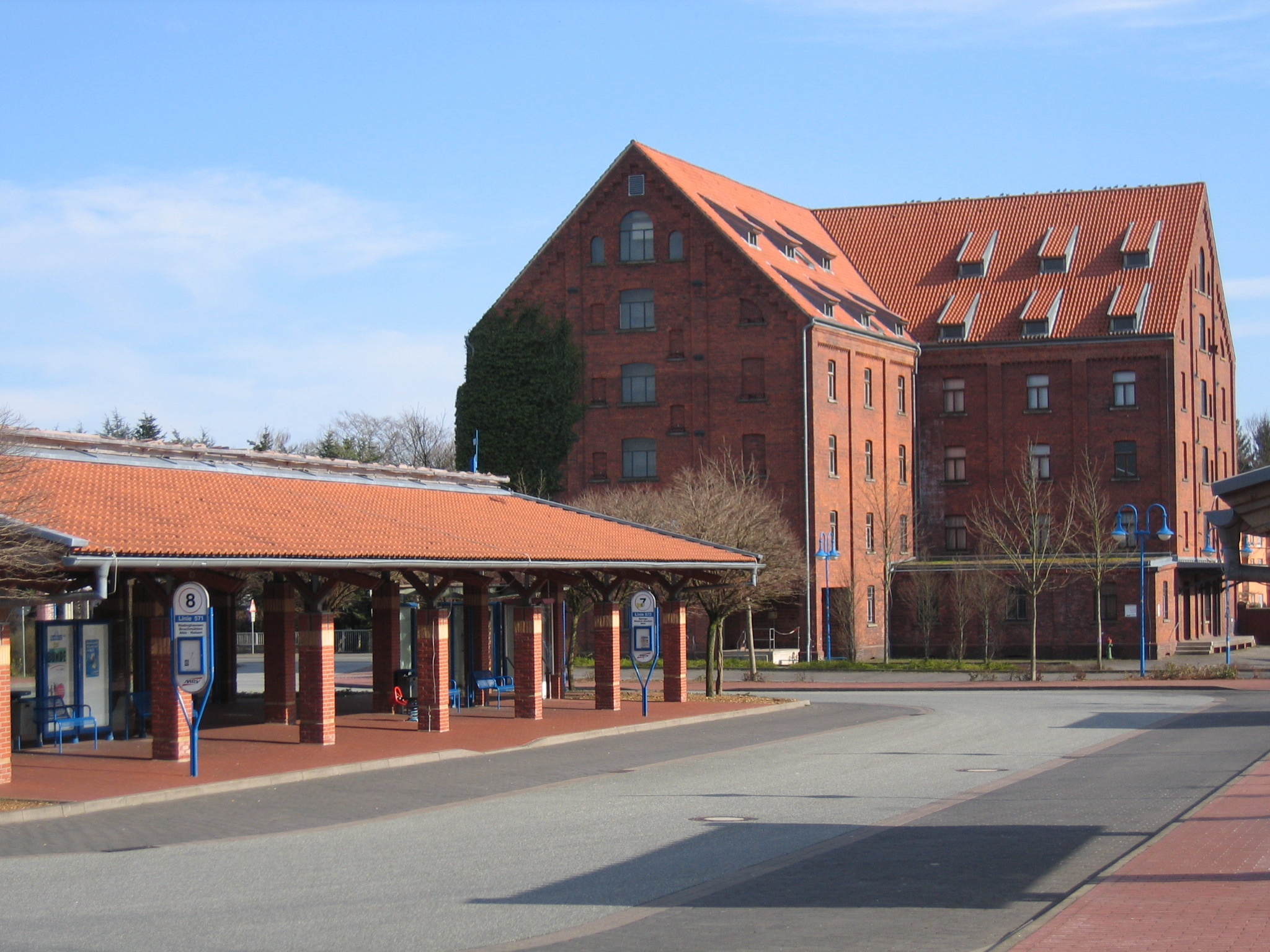 Bus station and tobacco warehouse in town of Bünde, District of Herford, North Rhine-Westphalia, Germany.